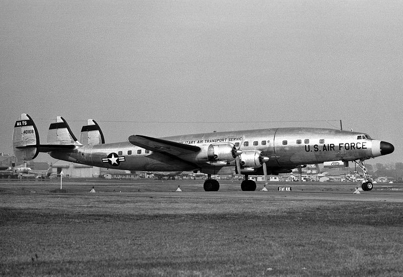 A U.S. Air Force Military Air Transport Service Lockheed C-121C-LO Super Constellation (s/n 54-0168) at Tachikawa Air Base, Japan, in 1952. This aircraft was later converted to an VC-121C.